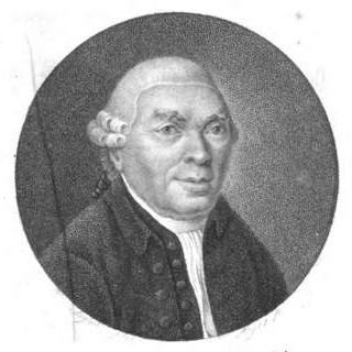 Depicted person: Johann Christoph Kühnau